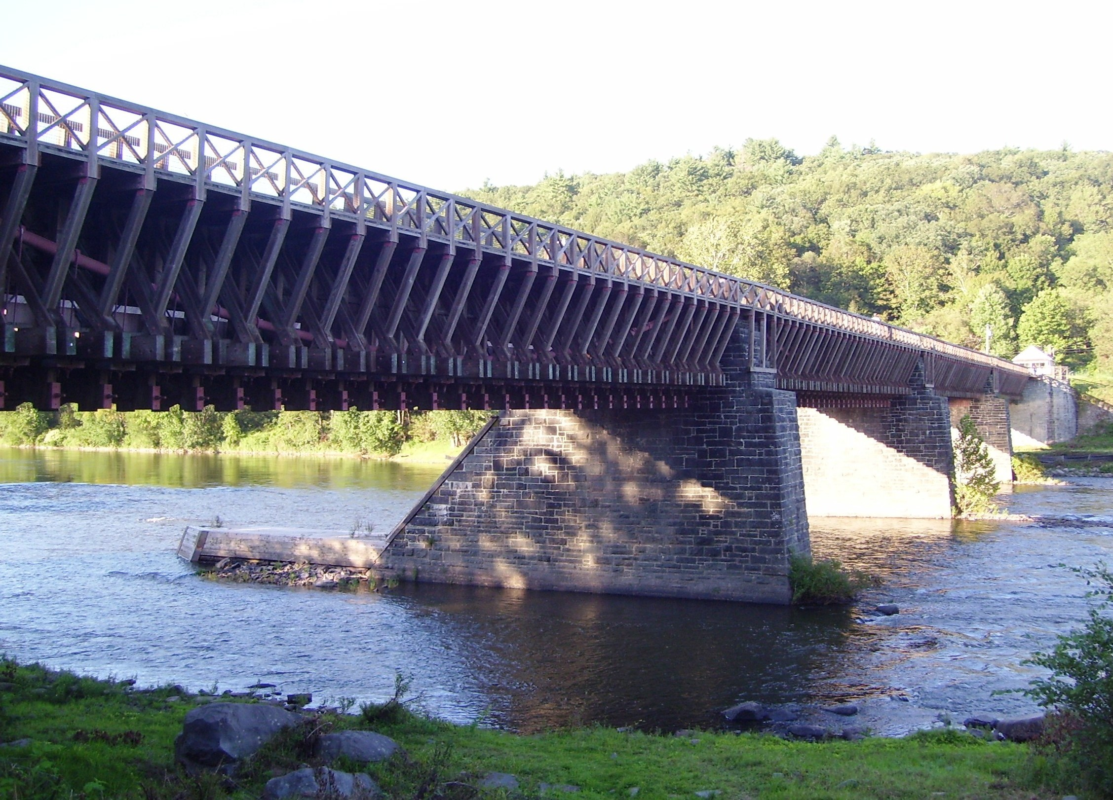 The Roebling Bridge, also known as "Roebling's Delaware Aqueduct" spans the Delaware River from Minisink Ford, New York to Lackawaxen, Pennsylvania. Built in 1847 and designed by John A. Roebling – who would go on to design the Brooklyn Bridge – it originally carried the Delaware & Hudson Canal over the river, replacing the ferrying that was previously used. It was later converted to vehicular and pedestrian use, and was restored in 1965 and 1995. Owned now by the National Park Service, it has been a National Historic Landmark since 1968.This view shows the south (downriver) face of the bridge from the west (Pennsylvania) bank.